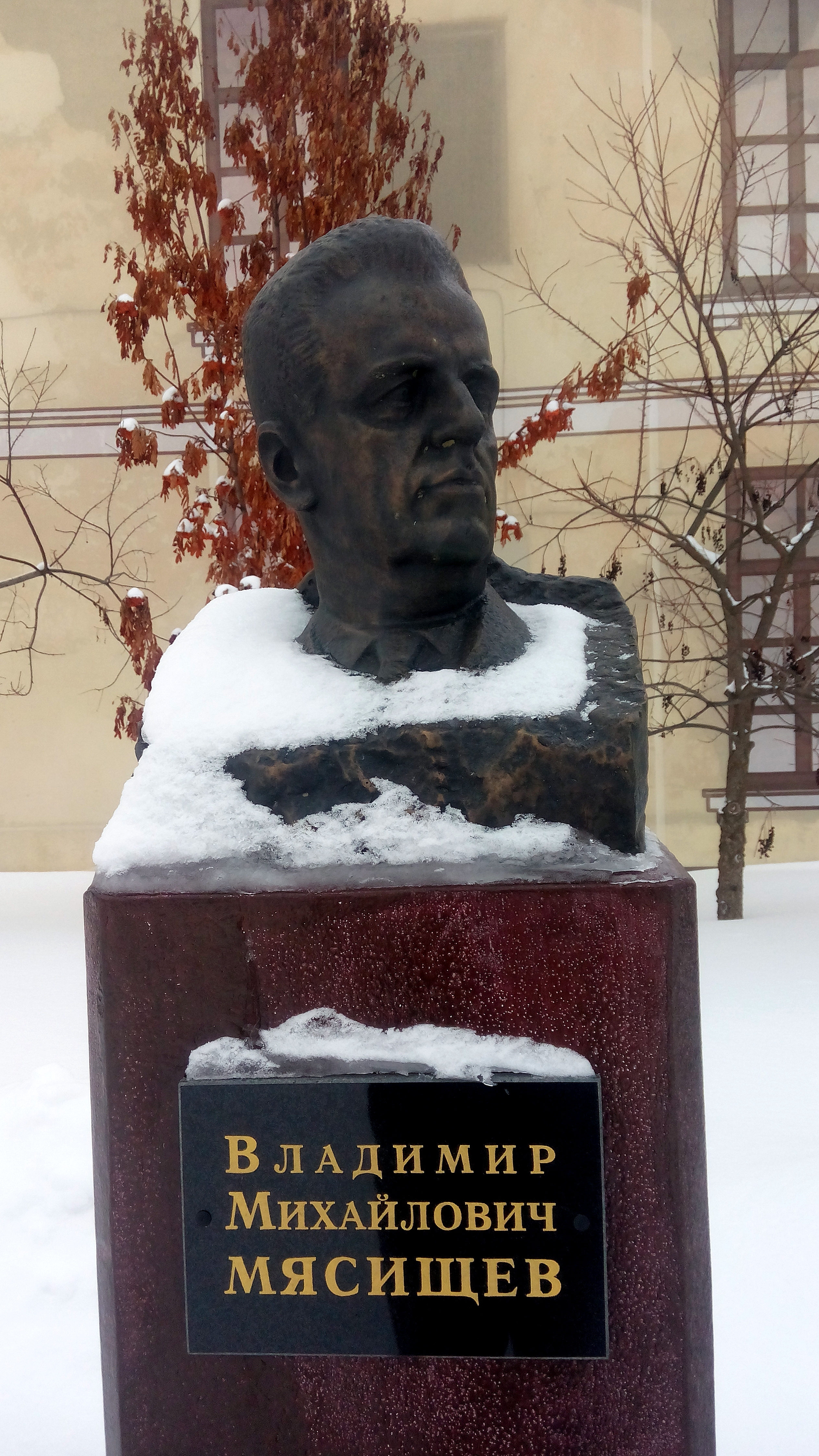 The bust of soviet aircraft designer Myasishchev, Vladimir Mikhailovich. The Park named after Myasishchev in the city of Efremov. January 30, 2019.